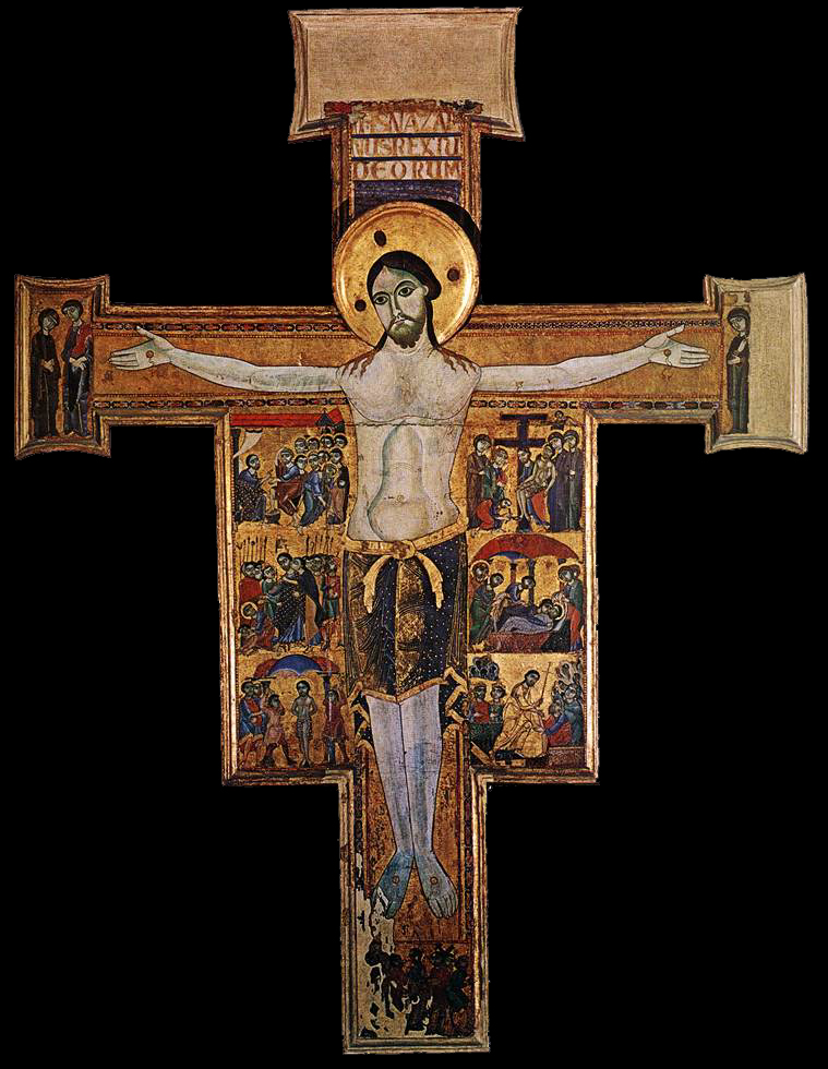 UNKNOWN MASTER, Italian Crucifix with the Stories of the Passion (n. 432) Tempera on wood, 277 x 231 Galleria degli Uffizi, Florence